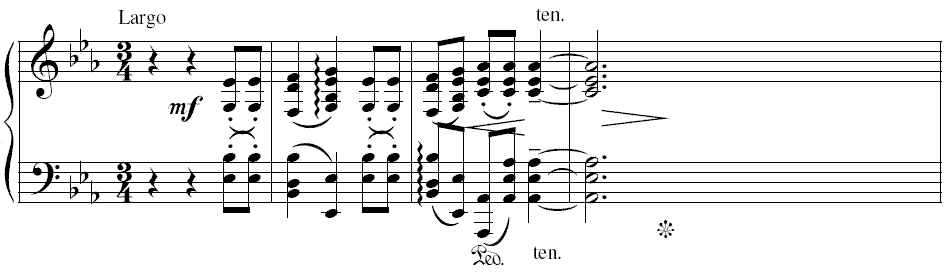 1812 Overture - Tchaikovsky (first bars) - arranged: Stepan Esipoff